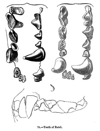 Illustration of Honey Badger (ratel) teeth